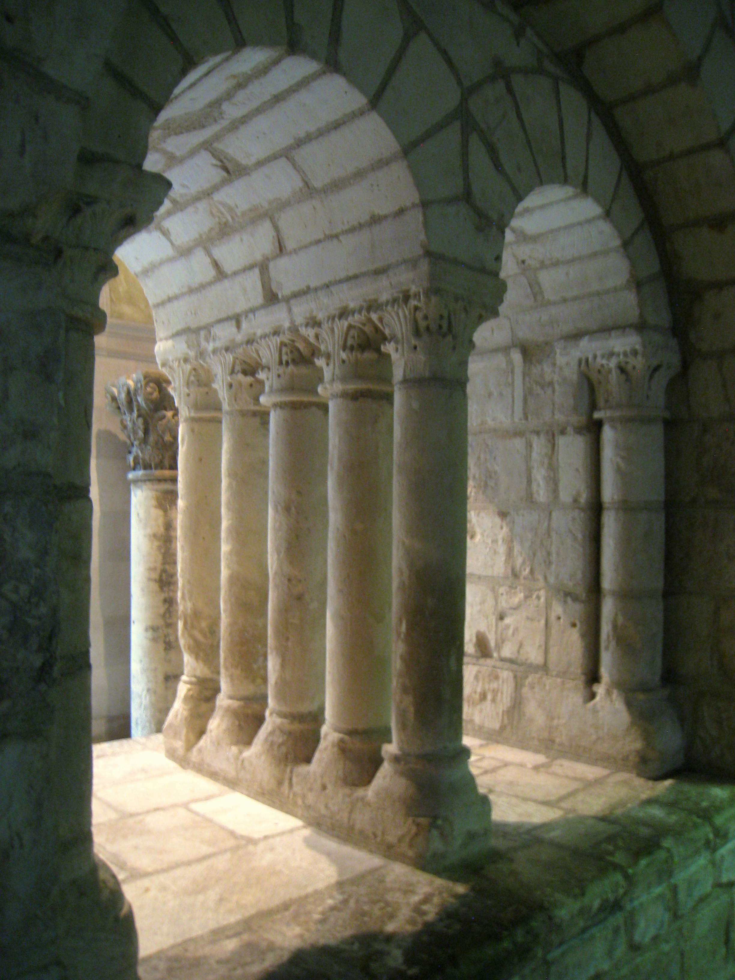 Chapter House from the Benedictine priory of Saint John Le Bas-Neuil, limestone, west-central France, 1150-1190, in the Worcester Art Museum, Worcester, Massachusetts, USA. The museum permits photography and does not restrict usage of the photographs.